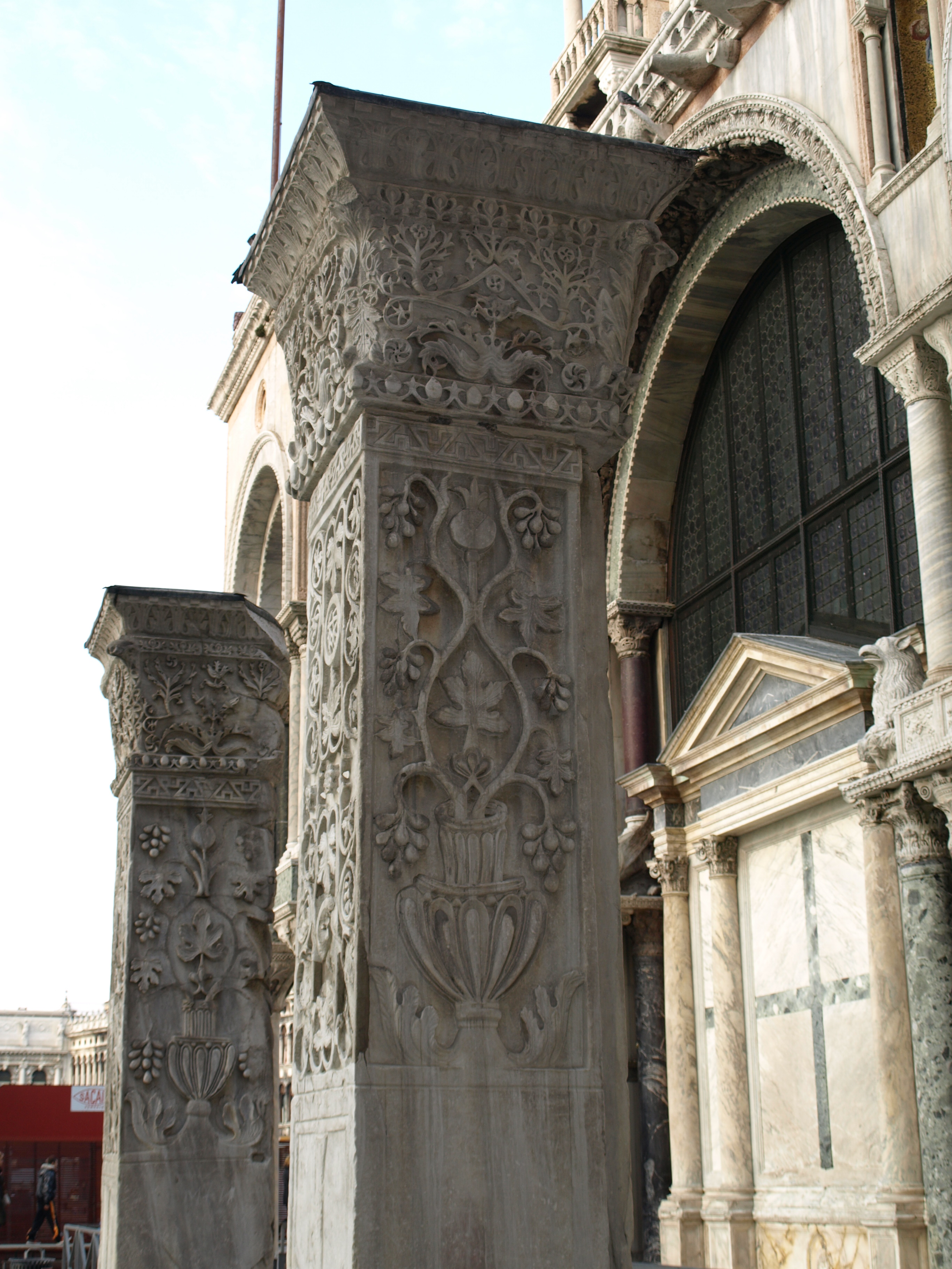 Pilastri Acritani in front of the South portal of San Marco basilica in Venice : they are spolia from the St Polyeuktos church in Constantinople (6th c.)